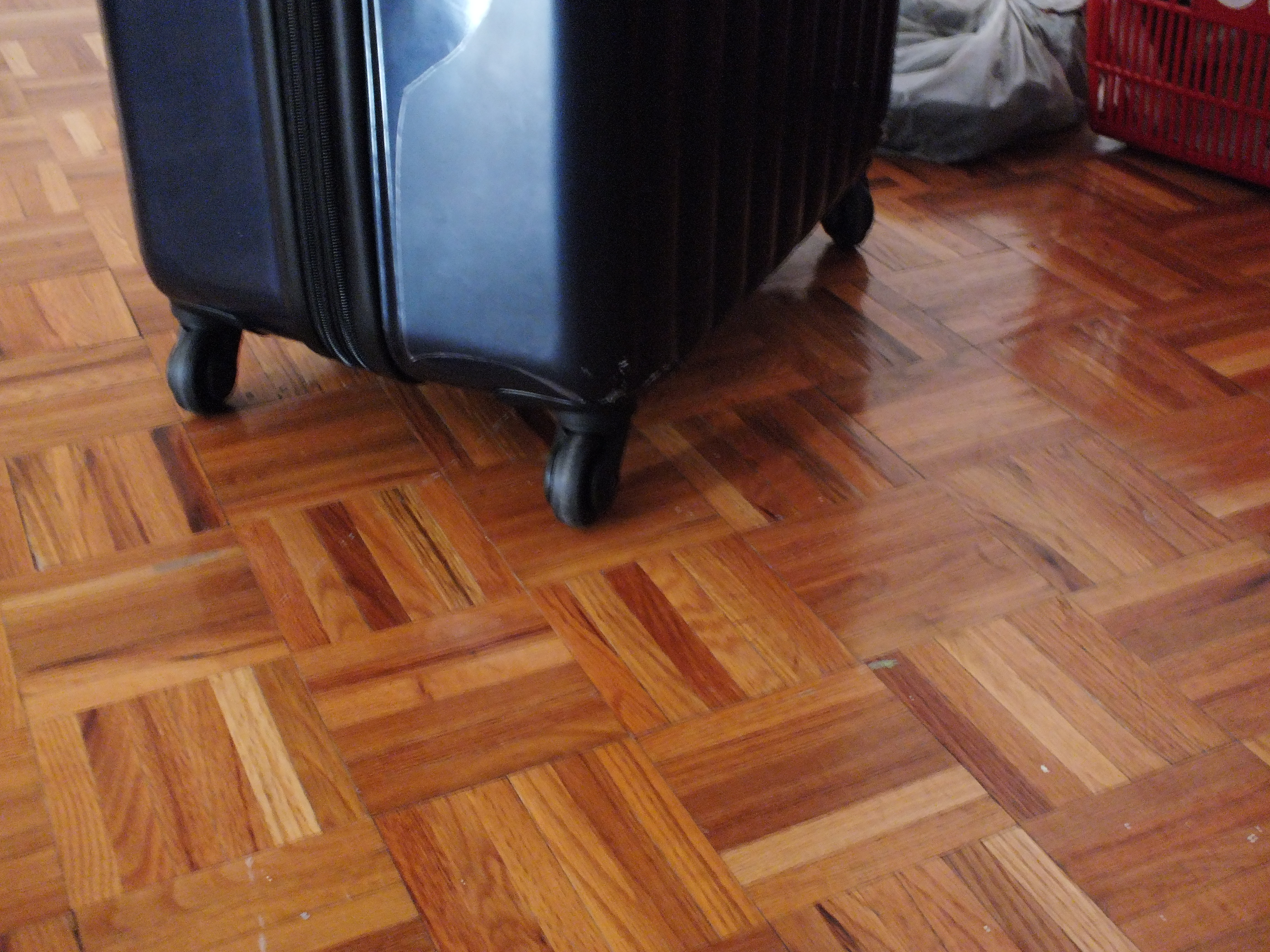 close up on the great 360 degree 4 wheels